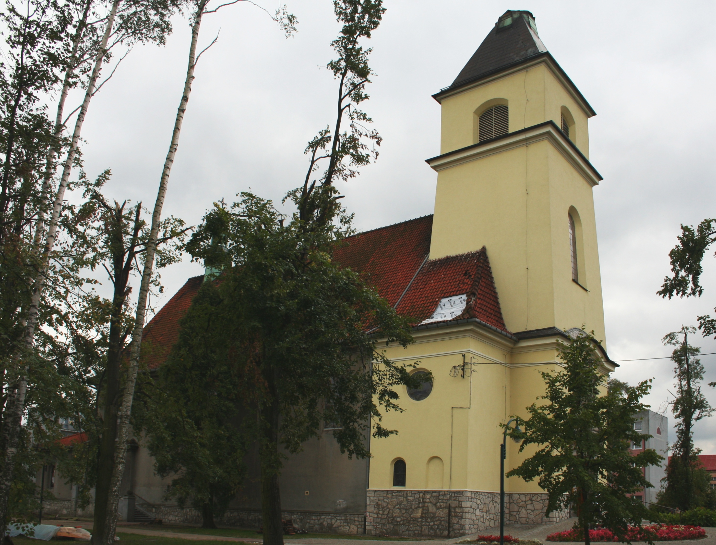 church in Blachownia, Poland